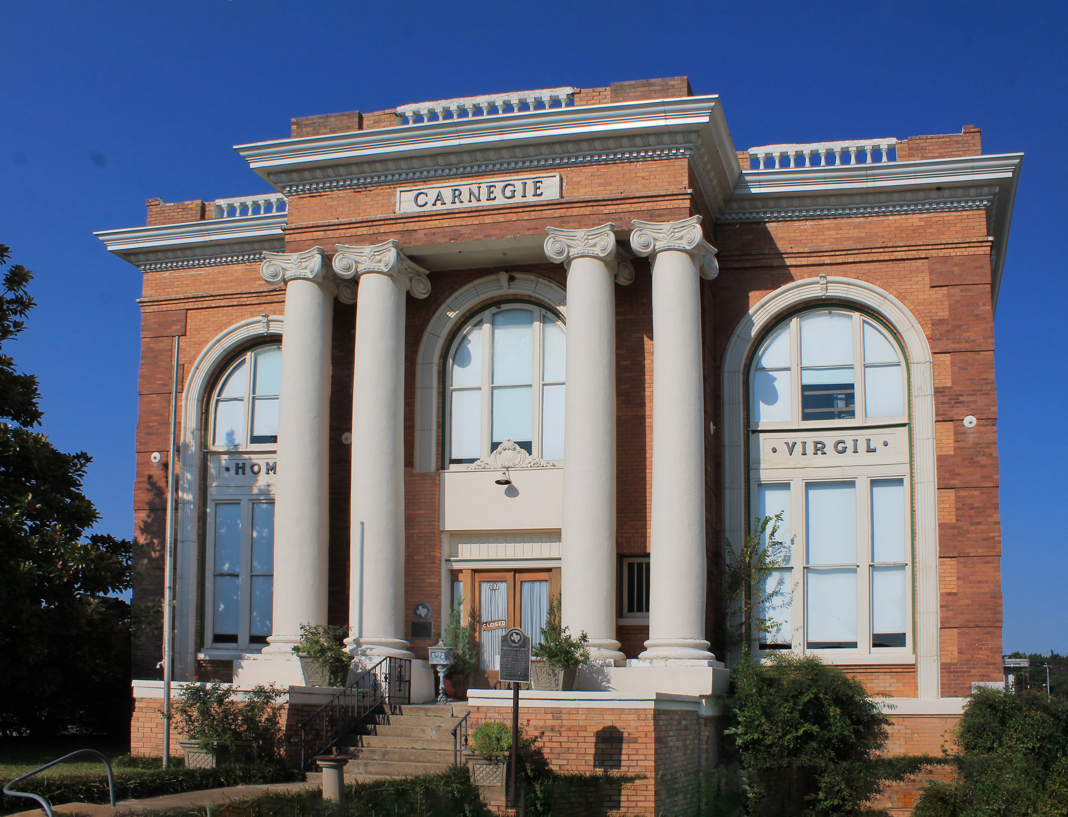 Terrell Carnegie Library